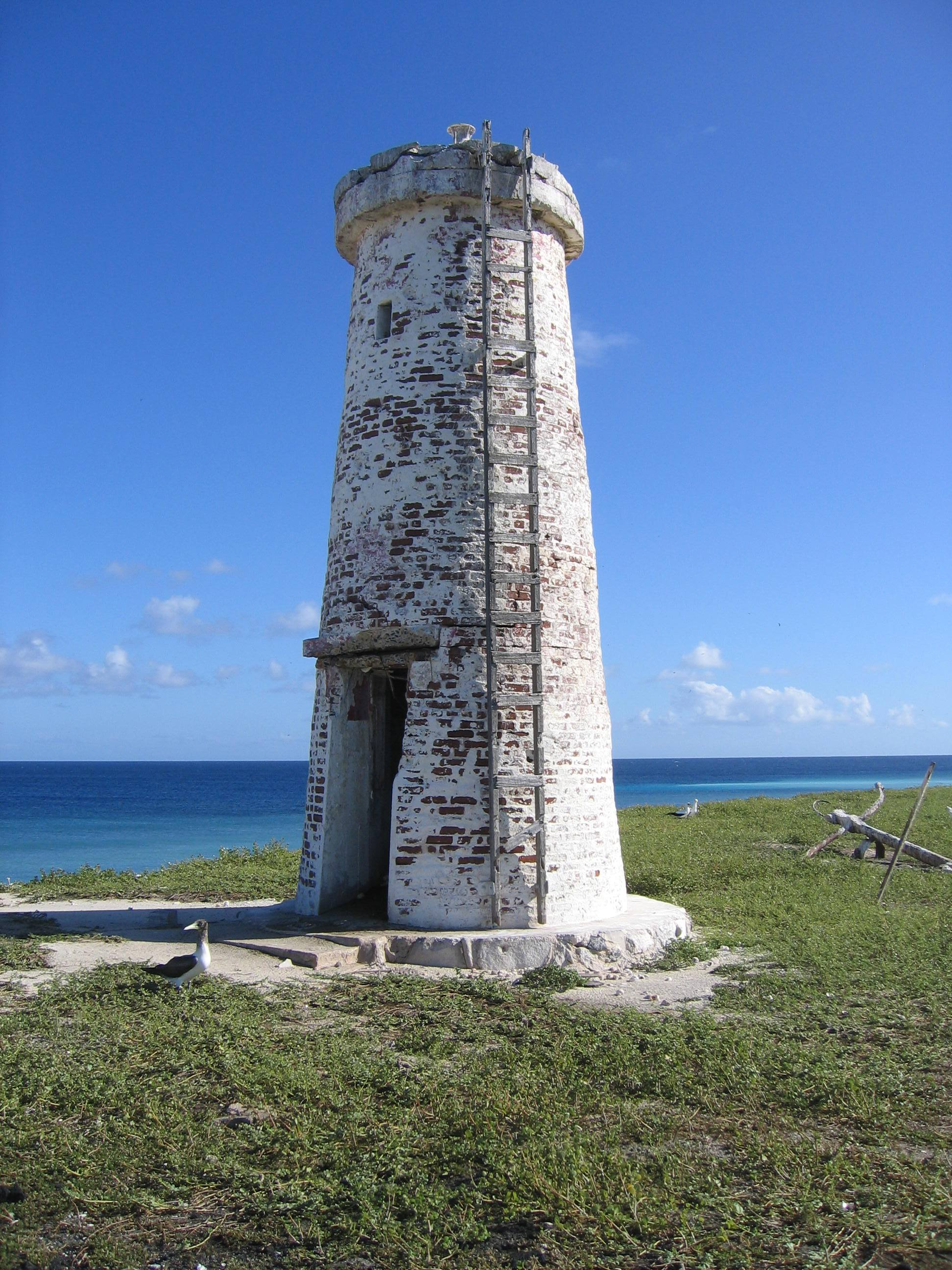 Day Beacon, Baker Island, Pacific Ocean